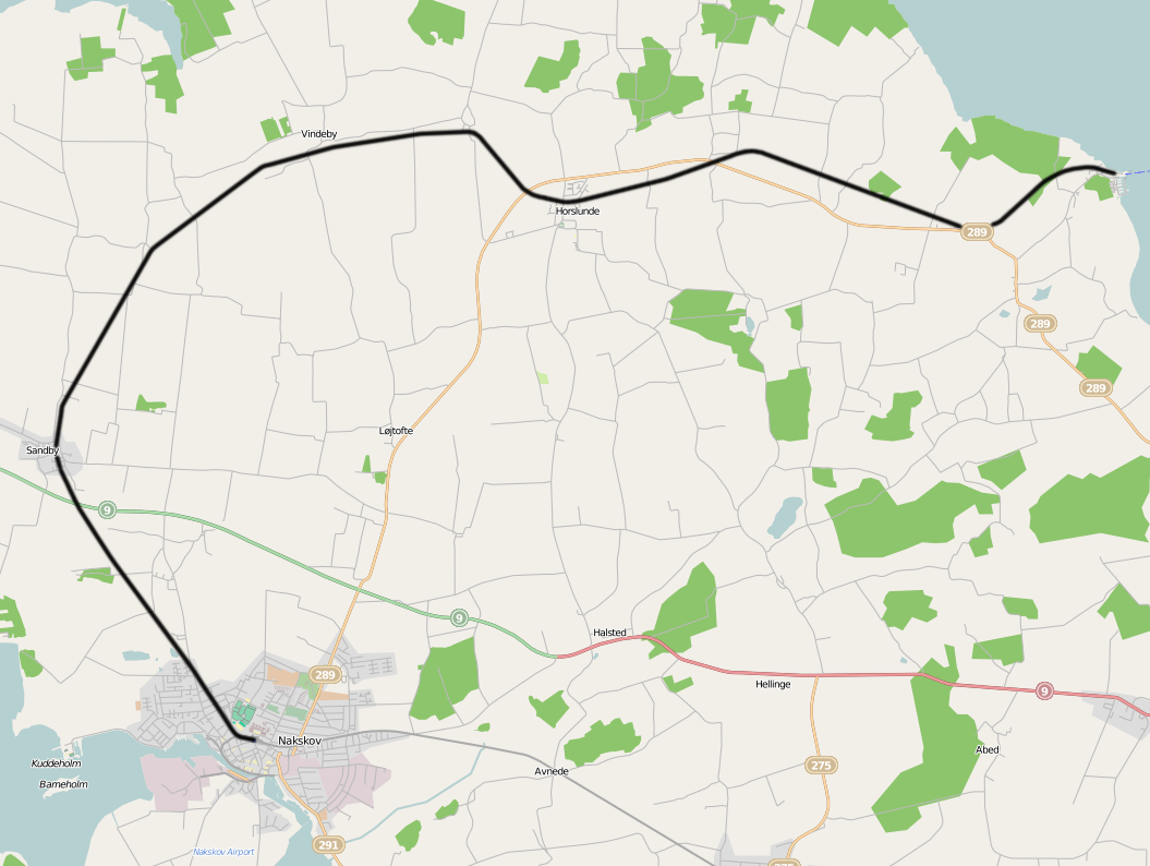 Railway line Nakskov - Kragenæs